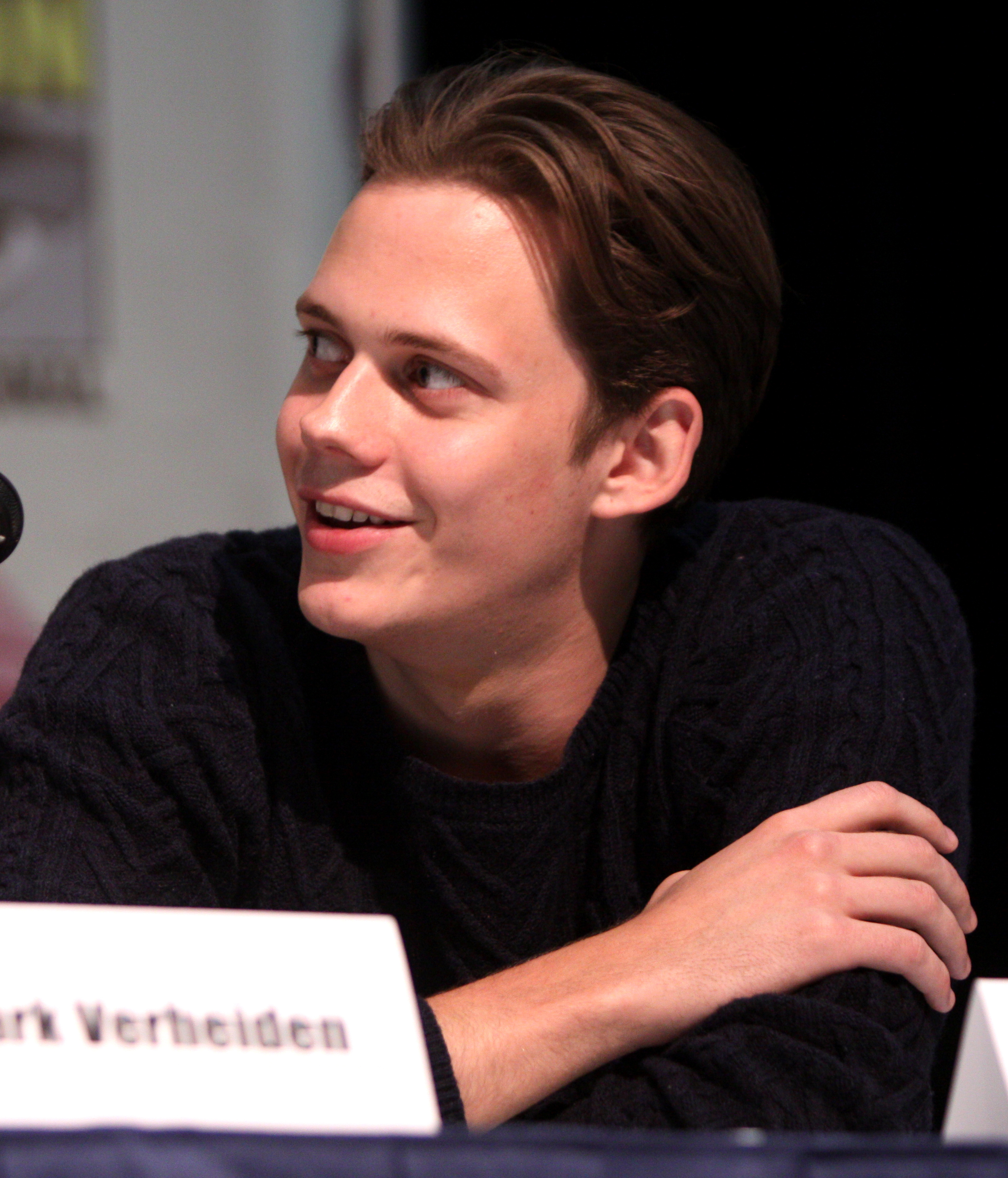 Bill Skarsgard speaking at the 2013 WonderCon in Anaheim, California on March 29, 2013.